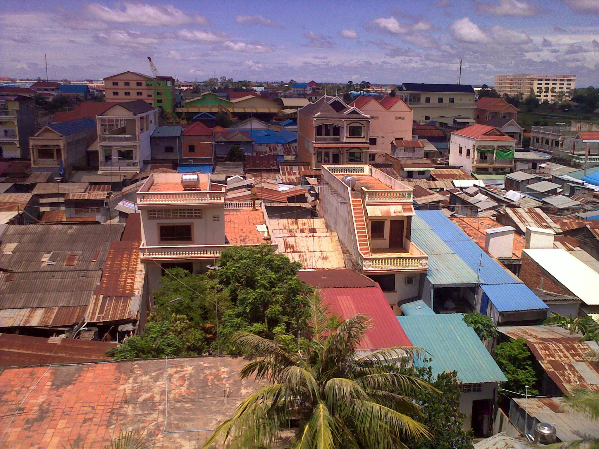 View of the roofs at Chom Chao district. Phnom Penh, Cambodia. September 2011.